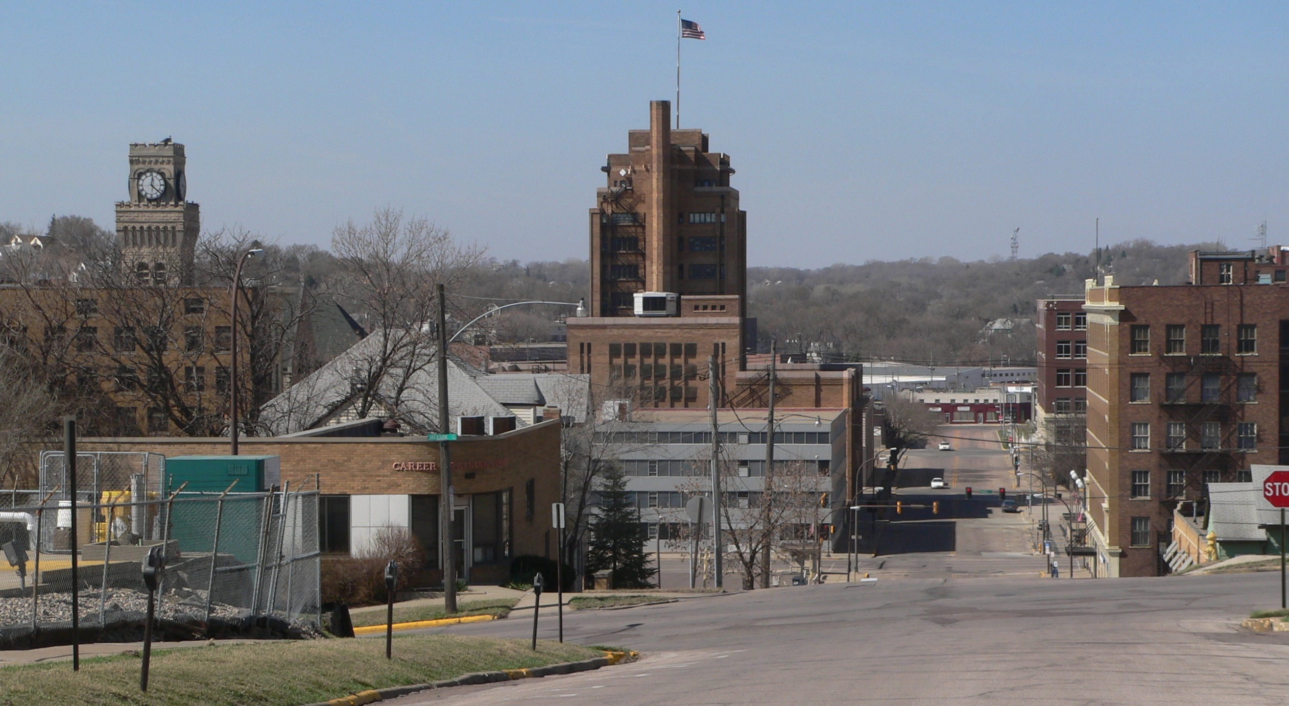 Downtown Sioux City, Iowa: 7th Street, looking westward from east of Jackson Street. In the center is the Woodbury County Courthouse.